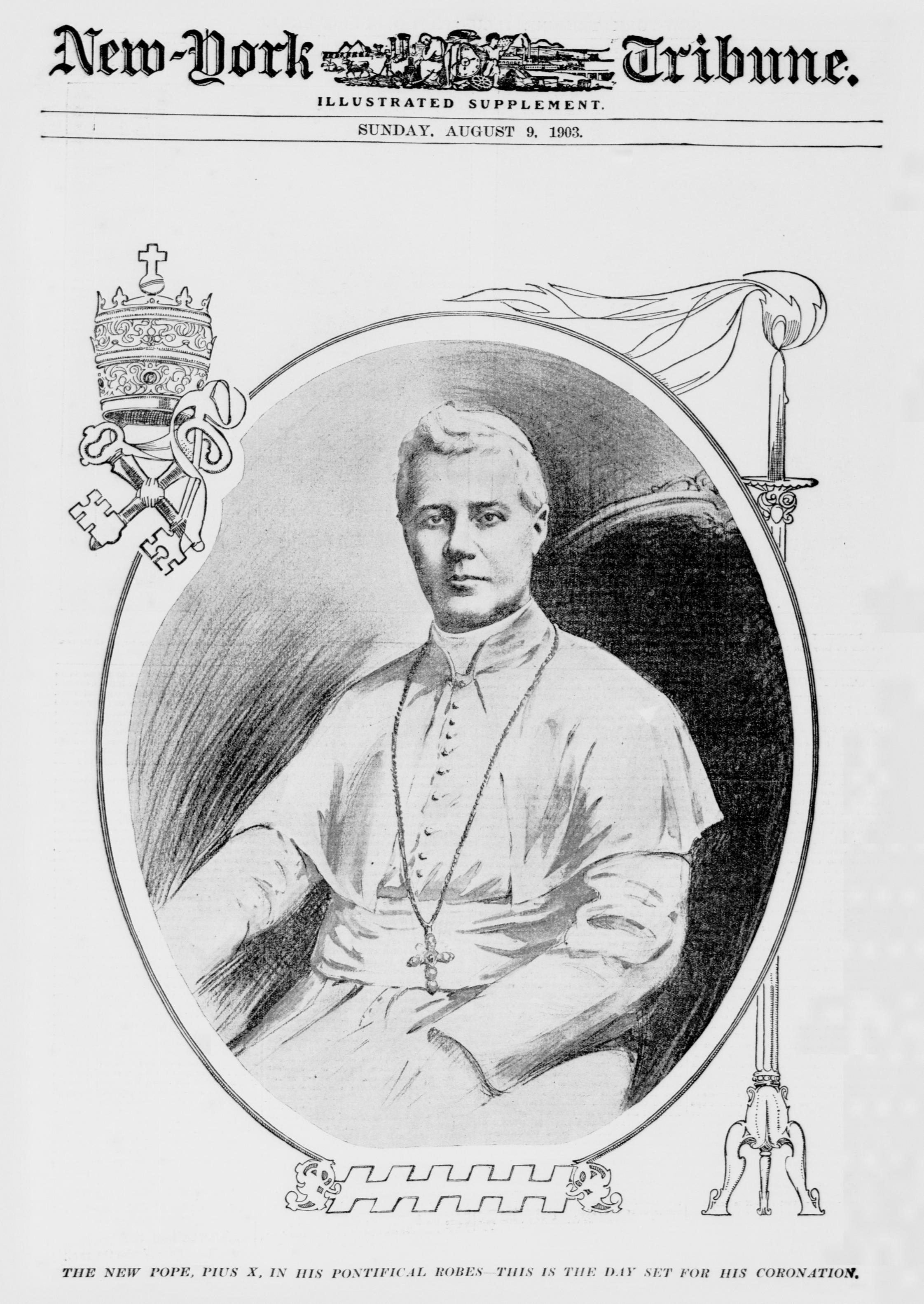 New-York tribune. (New York [N.Y.]) 1866-1924 August 9, 1903, Image 27 Notes: Cover, illustrated supplement. Format: Newspaper page, from microfilm Rights Info: No known restrictions on reproduction. Repository: Library of Congress, Serial and Government Publications Division, Washington, D.C. 20540 USA. Part Of: Chronicling America (Library of Congress) (DLC) - Persistent URL: More information about the Chronicling America Web site is available at